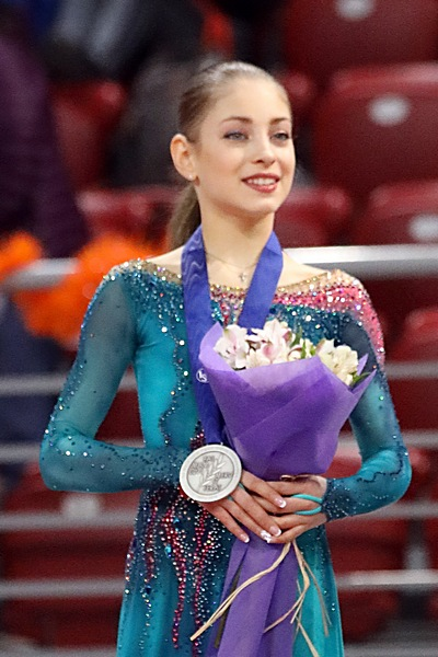 Photos – Junior World Championships 2018 – Ladies (Medalists)